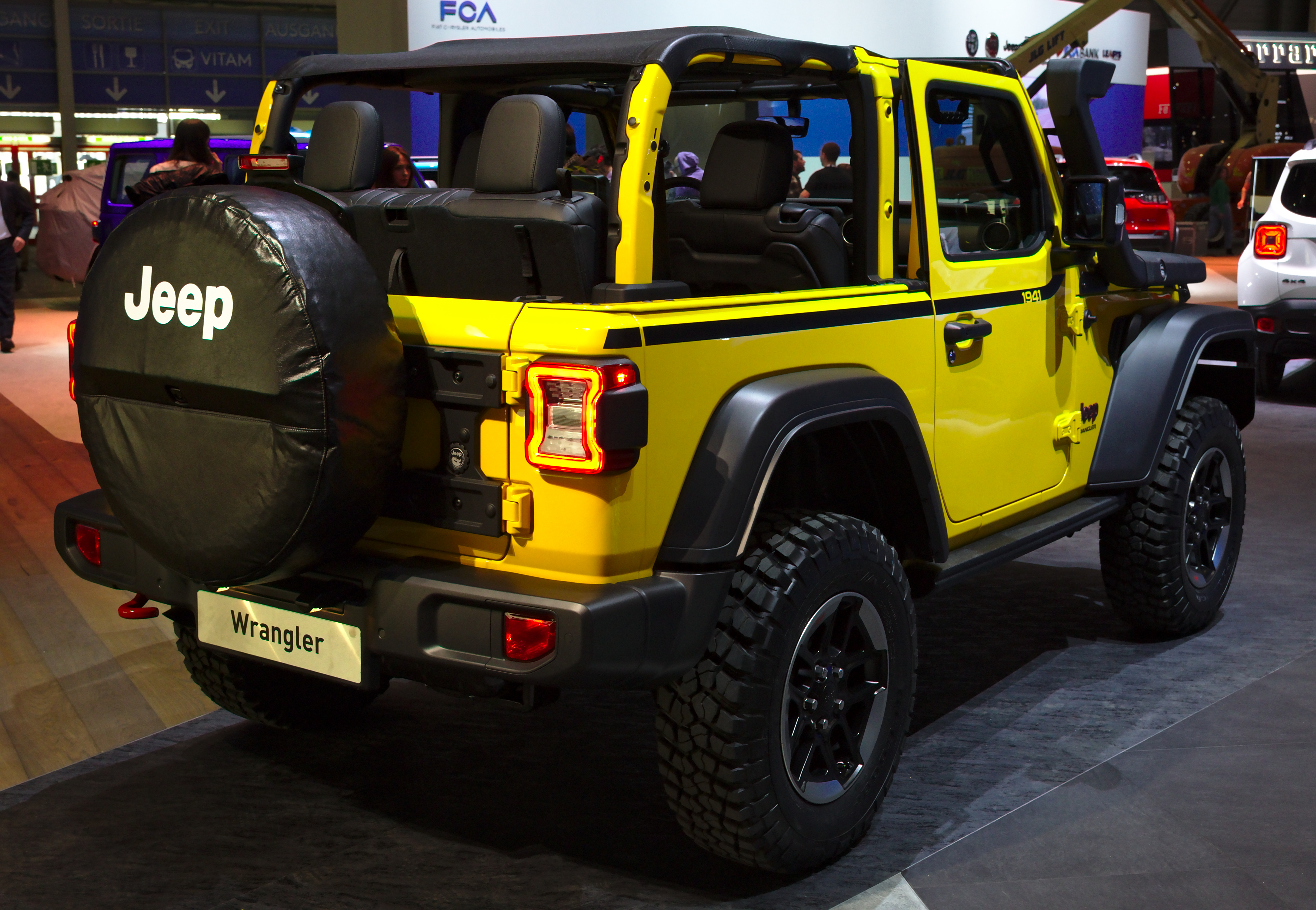 Jeep Wrangler Mopar at Geneva Motor Show 2019